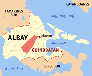 Locator map of Guinobatan in Albay, Philippines.